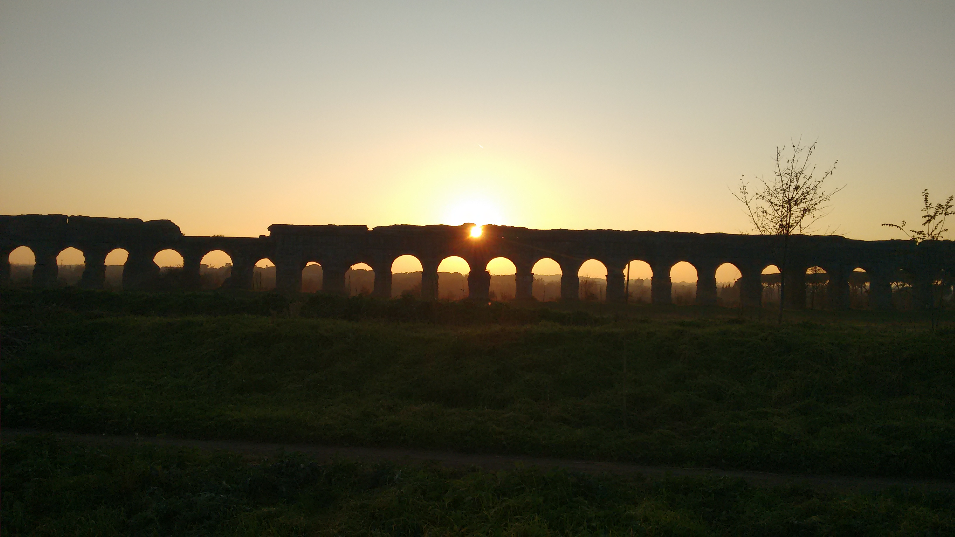 Sunset view of the Aqua Claudia in the Parco degli Acquedotti, Rome, Italy